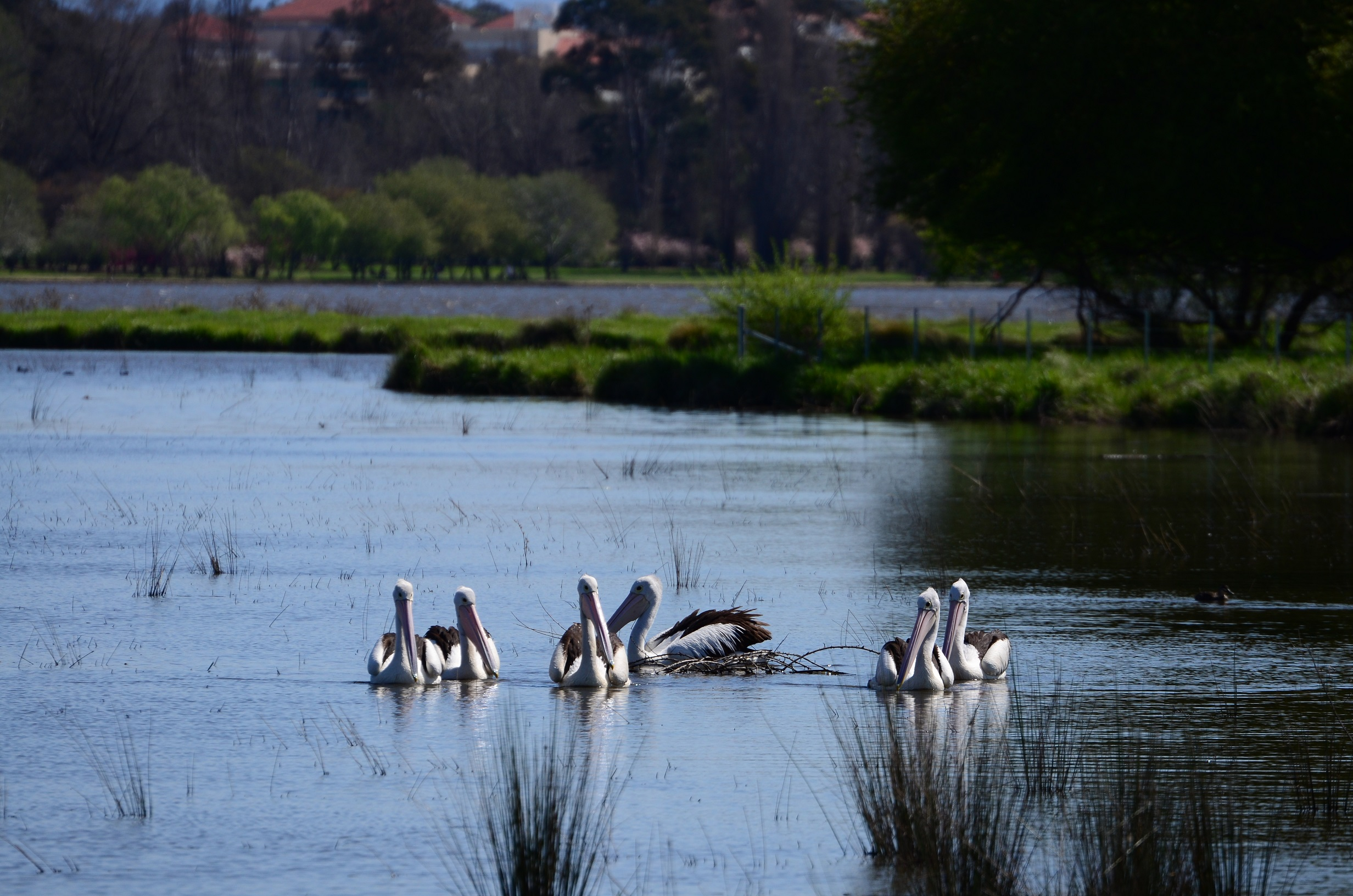 Six pelicans swimming at Jerrabomberra Wetlands. Photo taken by Michael Maconachie